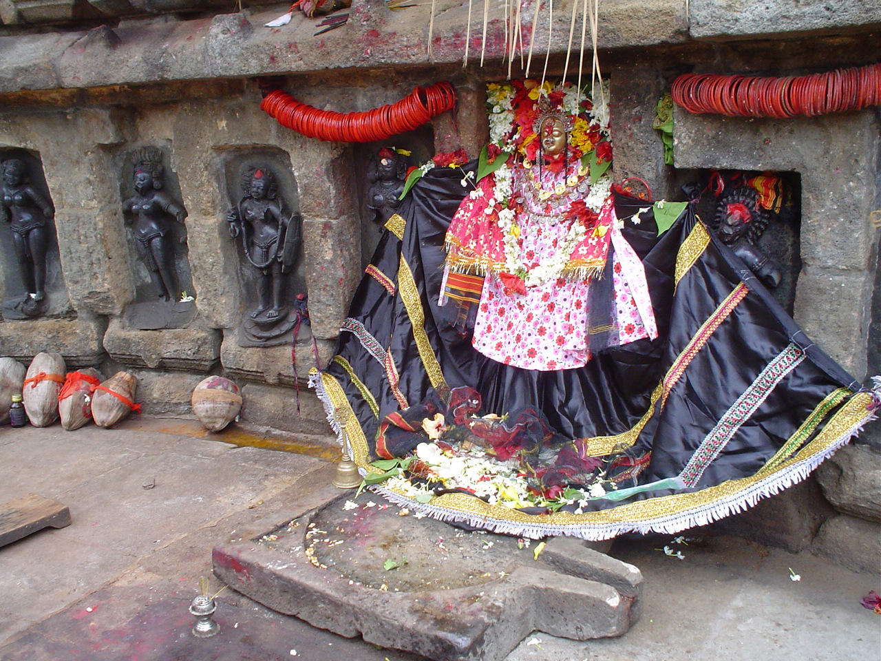 Chausath Yogini temple known as Mahamaya temple